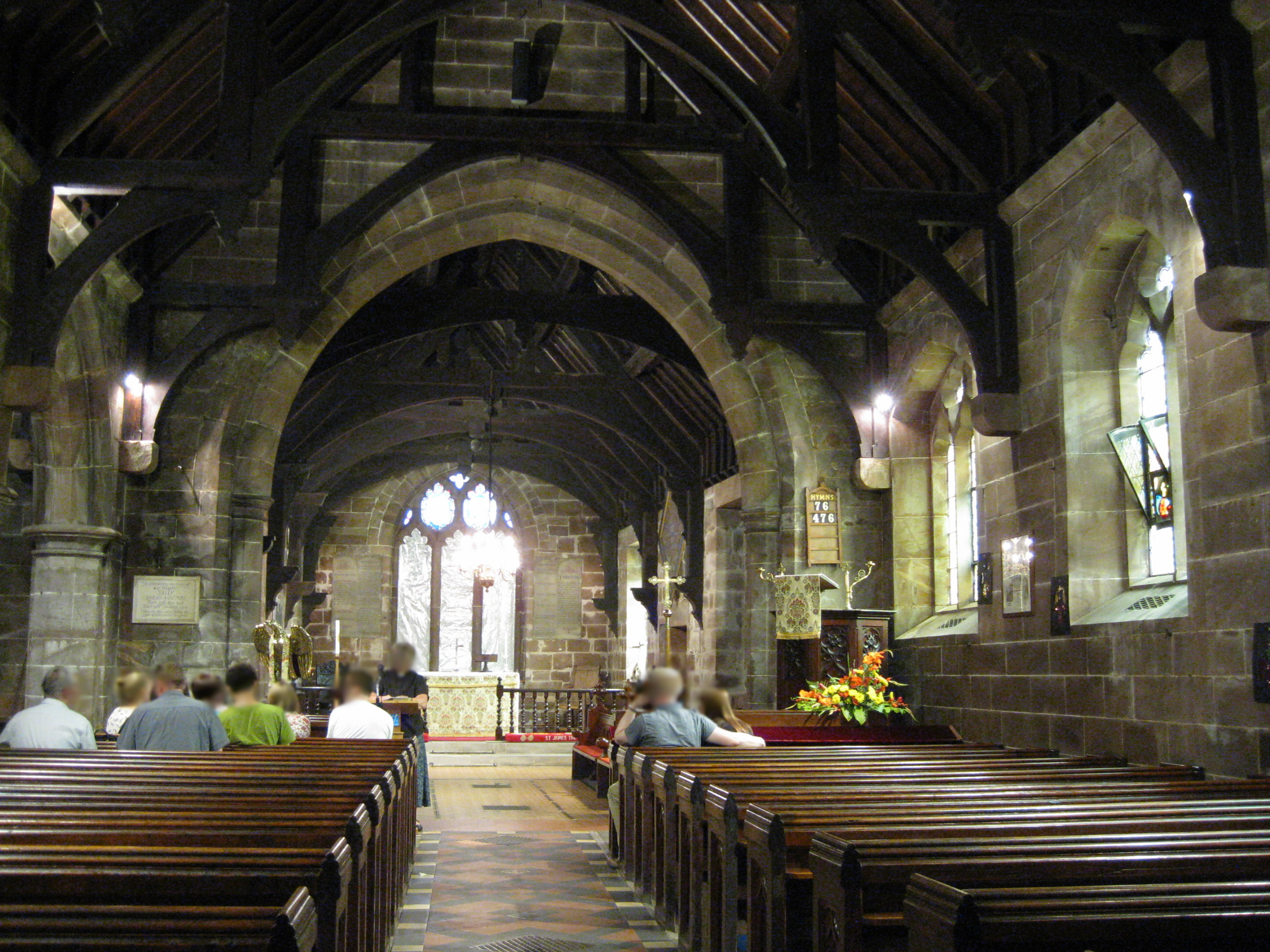 Church of St James the Great, Cheshire, interior. Looking down the nave towards the altar. (people blurred out) Hammer beam roof.